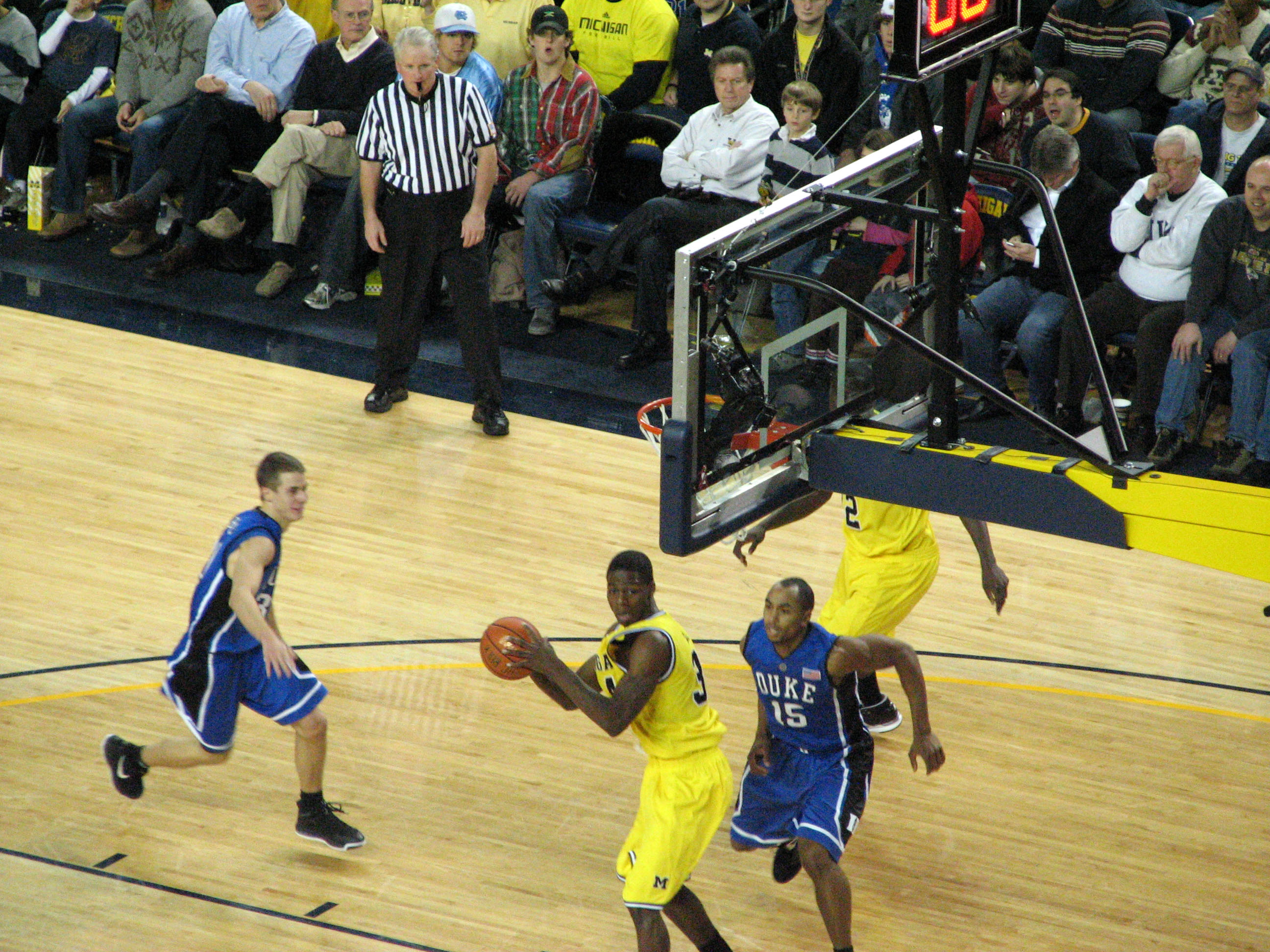 DeShawn Sims takes the ball to the basket against Duke.